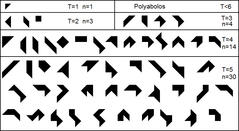 All the polyaboloes from 1 to 5 unit triangles